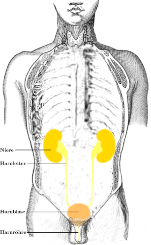 Position of organs of the urinary tract (Kidney, Ureter, Urinary bladder, Urethra